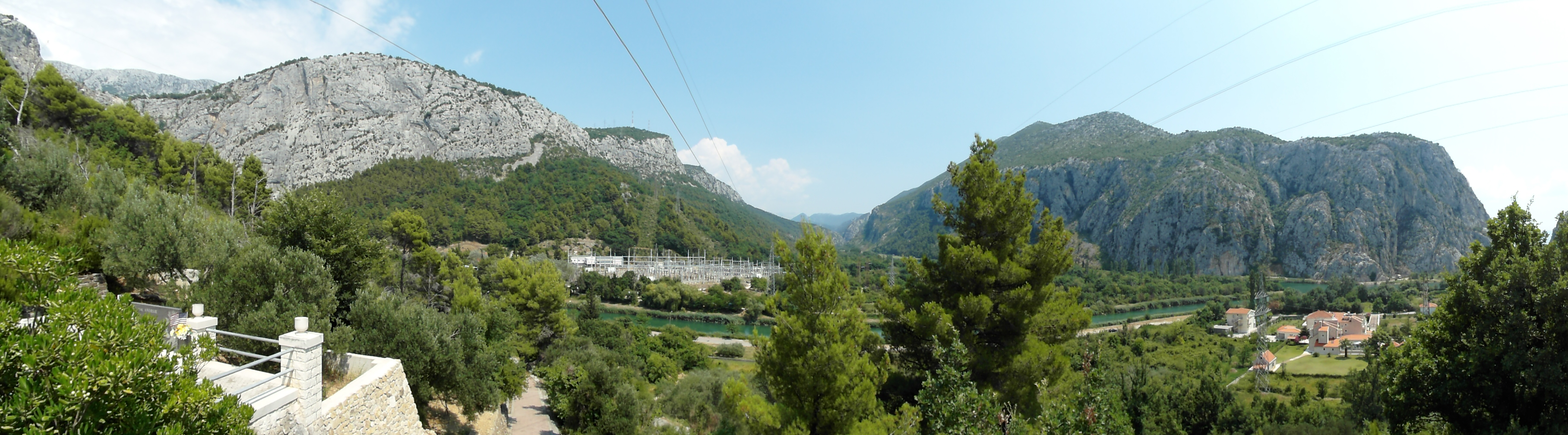 ELEKTRÁREŇ NA CETINE - POWER STATION ON CETINA